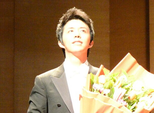 By Yundi's con